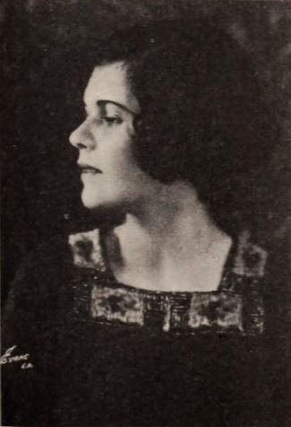 Actress Betty Bouton (1891 - ?), on page 67 of the May 1, 1920 Exhibitors Herald.